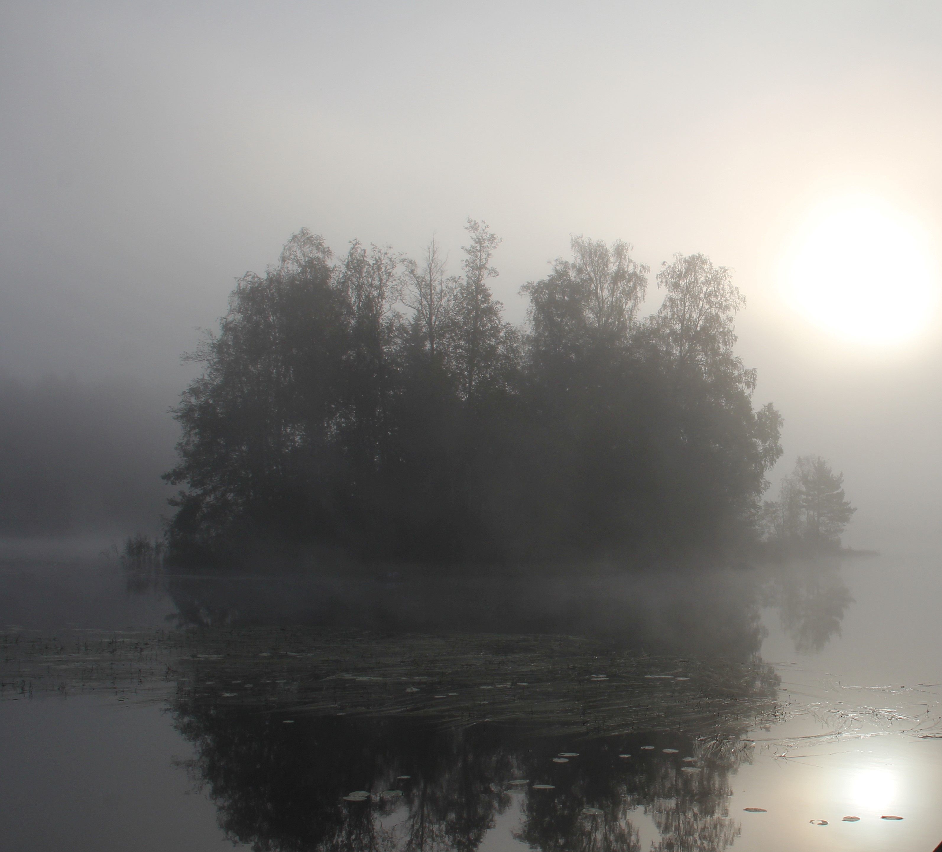 Kekosaari, island in Lahmajärvi, Urjala, Finland